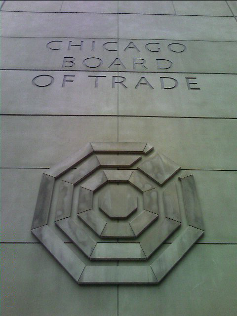 Logo of the Chicago Board of Trade from the east side of newest expansion.